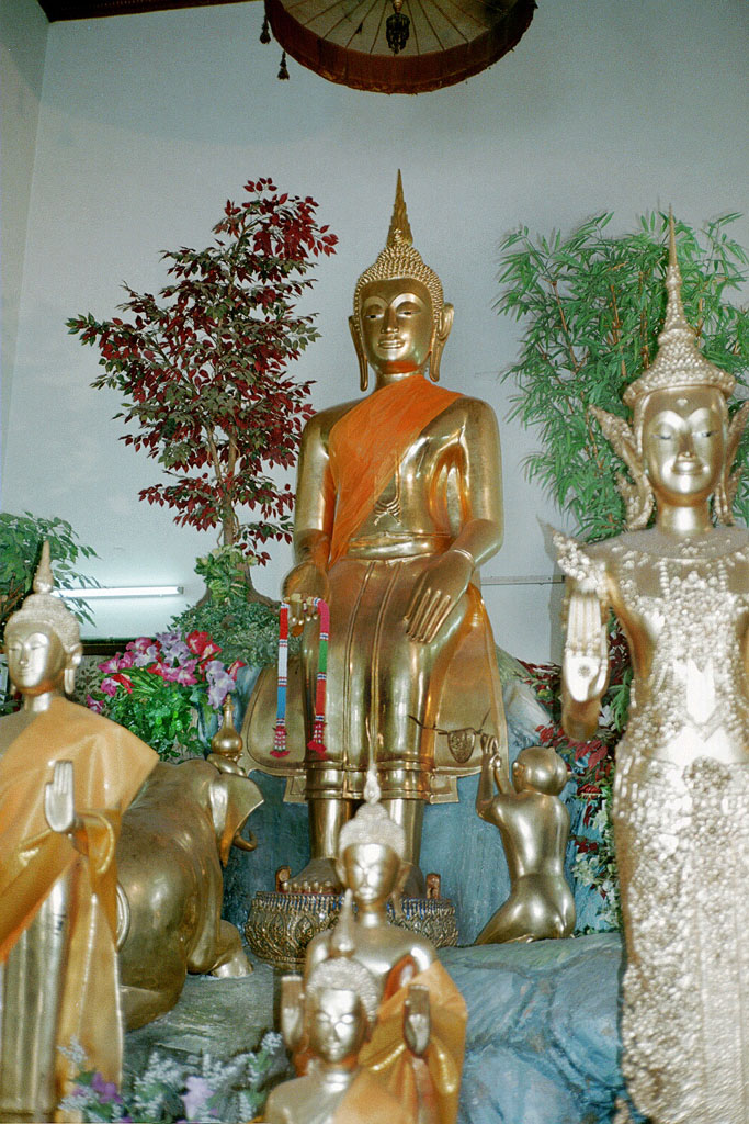 Sitting Buddha named "Phra Puttha Palalai", cast by King Rama I., Rattanakosin style, North Viharn of Wat Pho, Bangkok, Thailand